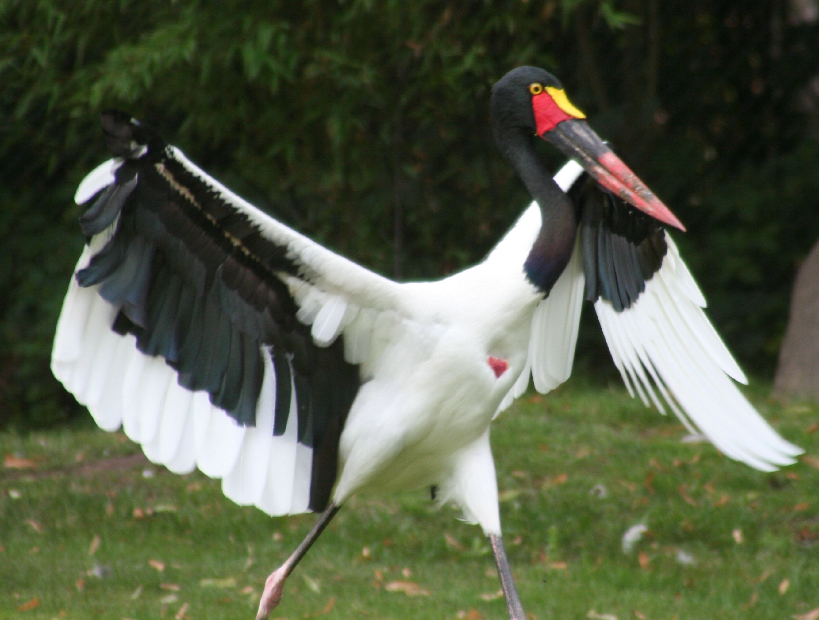 Ephippiorhynchus senegalensis from Hagenbeck